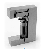 Lever